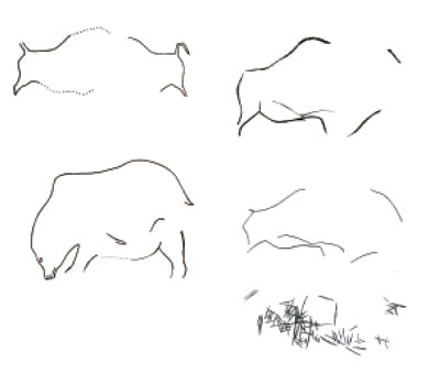 Mural paintings in Venta Laperra, Biscay, Basque Country